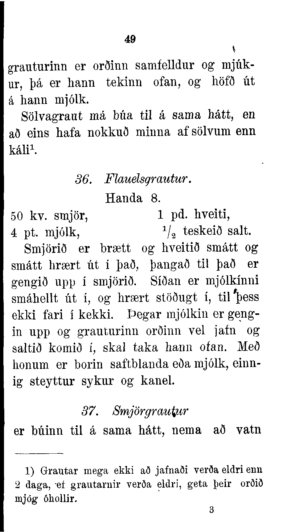 Page 49 from Kvennafræðarinn by Elín Briem.